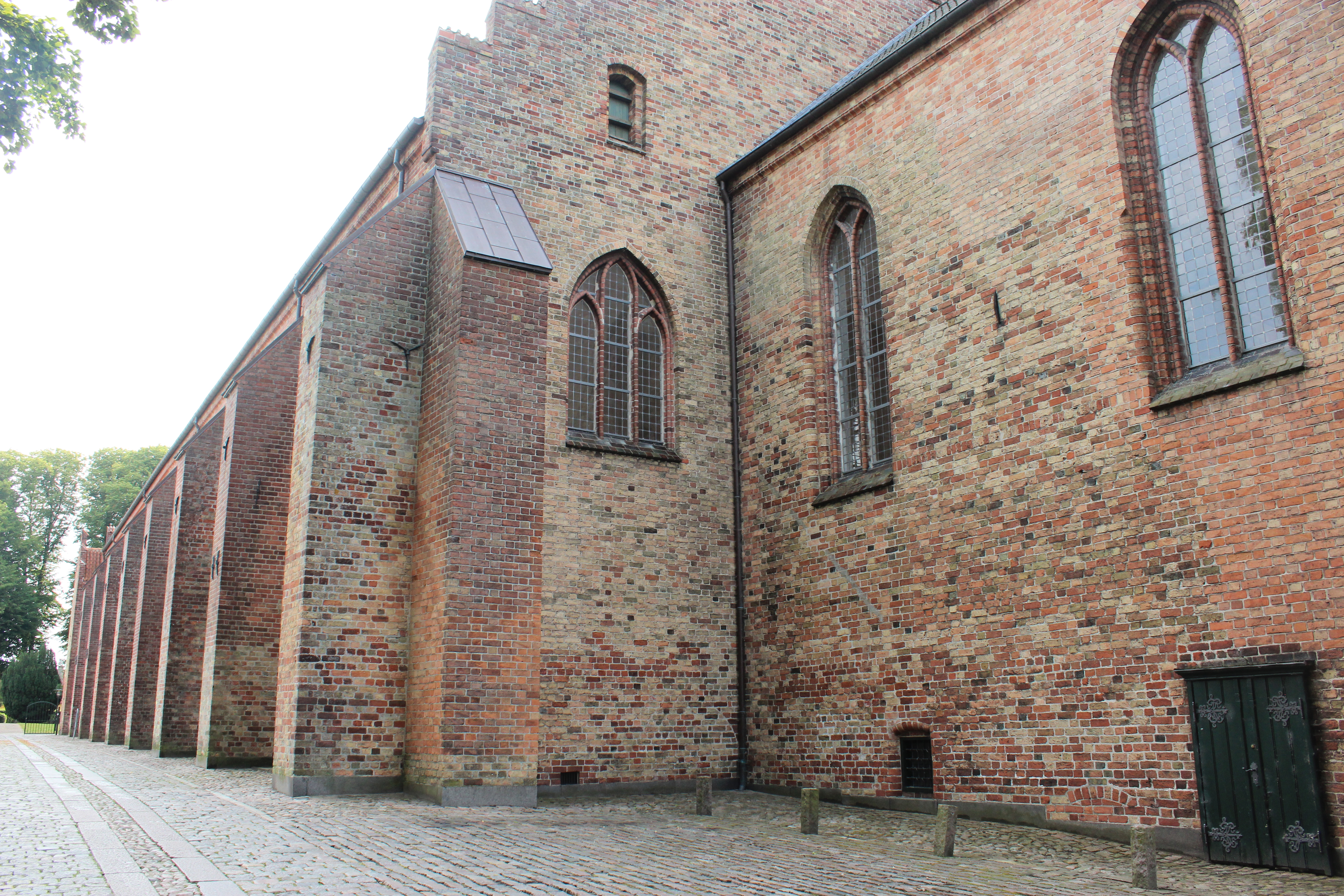 A view from nortwest on the Cathedral in Maribo.